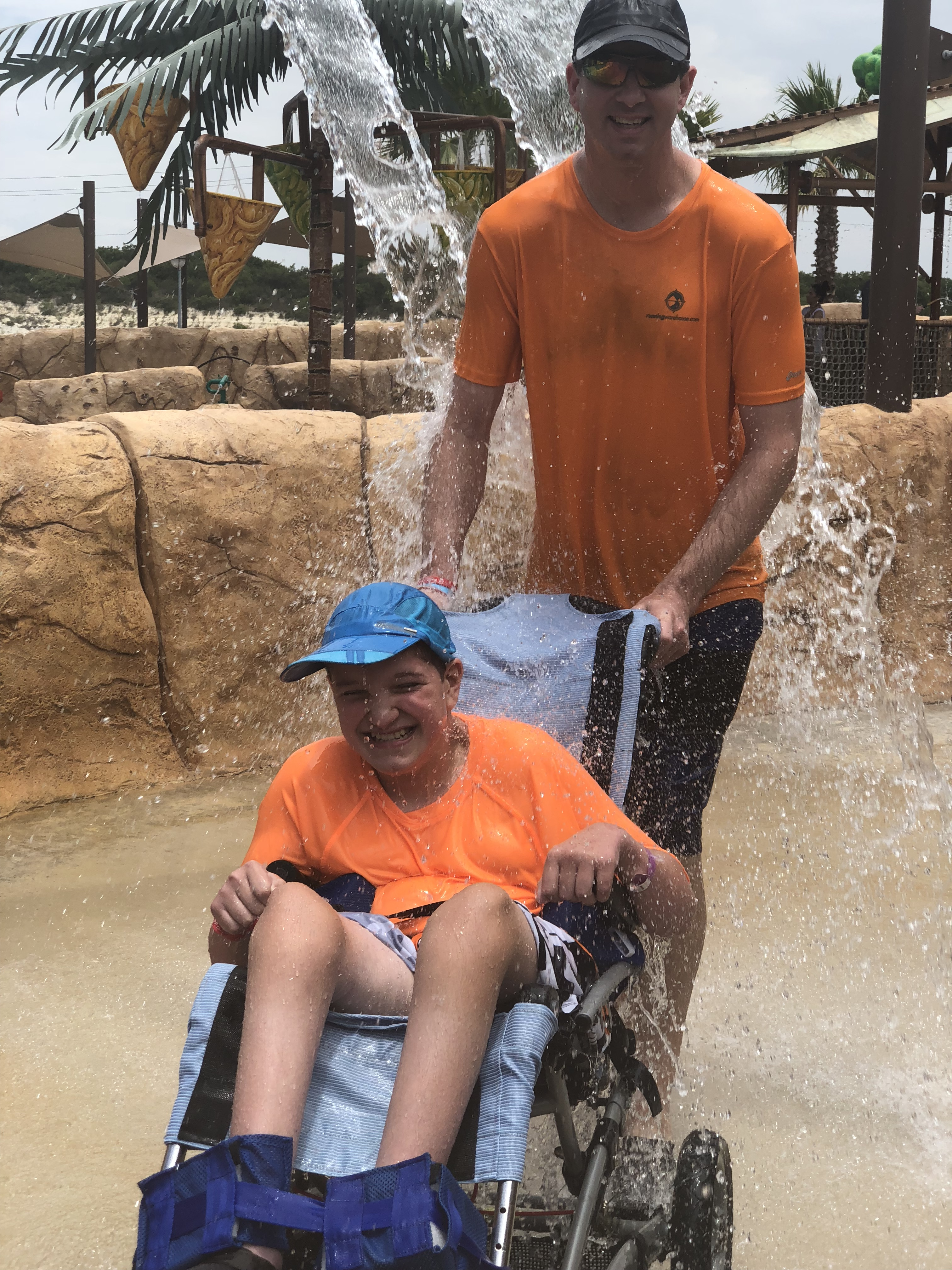 Guest of Morgan's Inspiration Island in Tilt & Space Chair on Harvey's Hideaway Bay